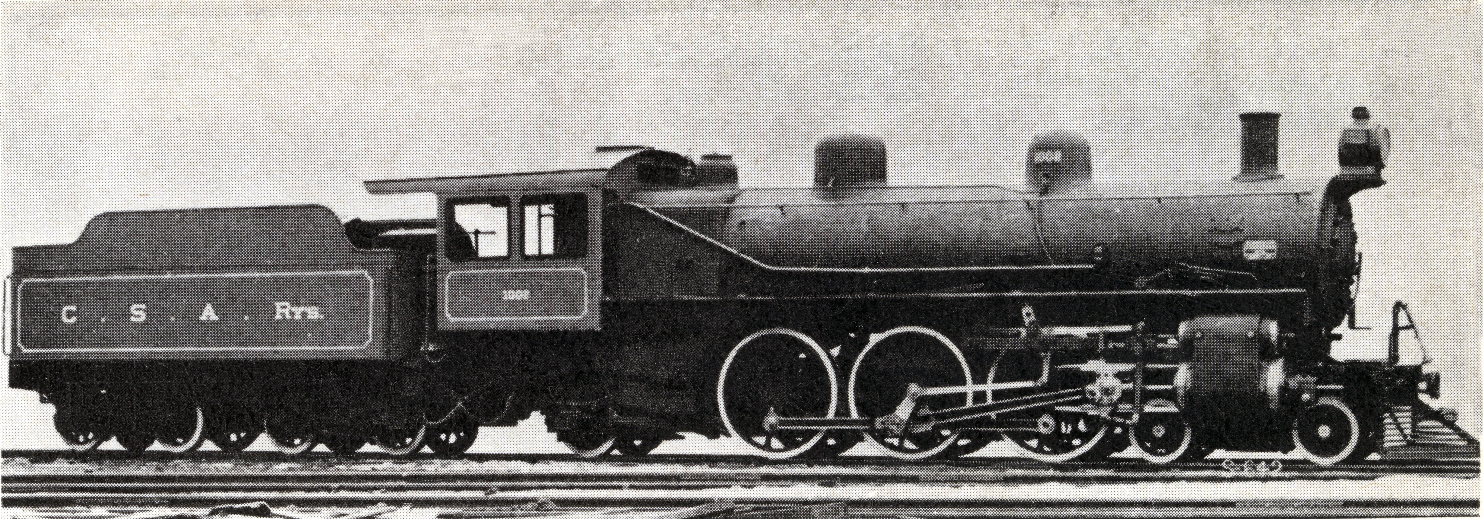 Ex Central South African Railways Class 10 1002 (4-6-2) South African Railways Class 10D 779 (4-6-2) Builder's Number: ALCO 46715/1910